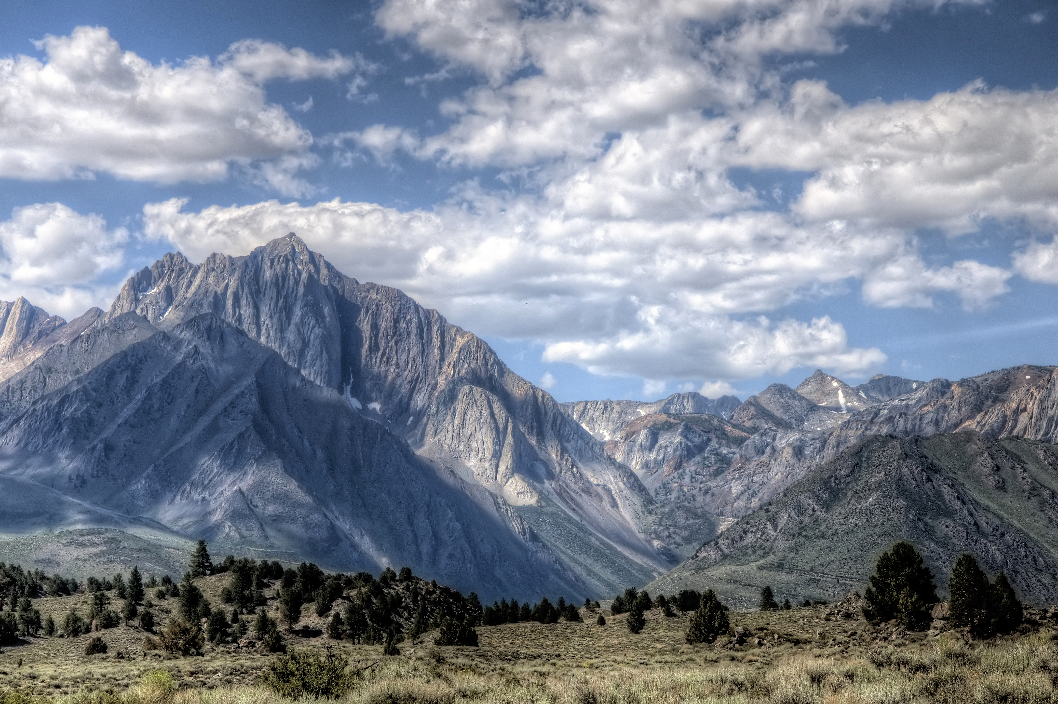 Mount Morrison, Sierra Nevada, California viewed from Long Valley